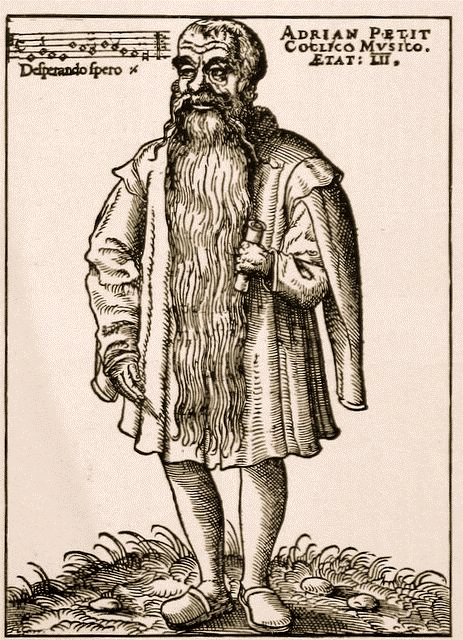 Image from 1552 of Adrianus Petit Coclico